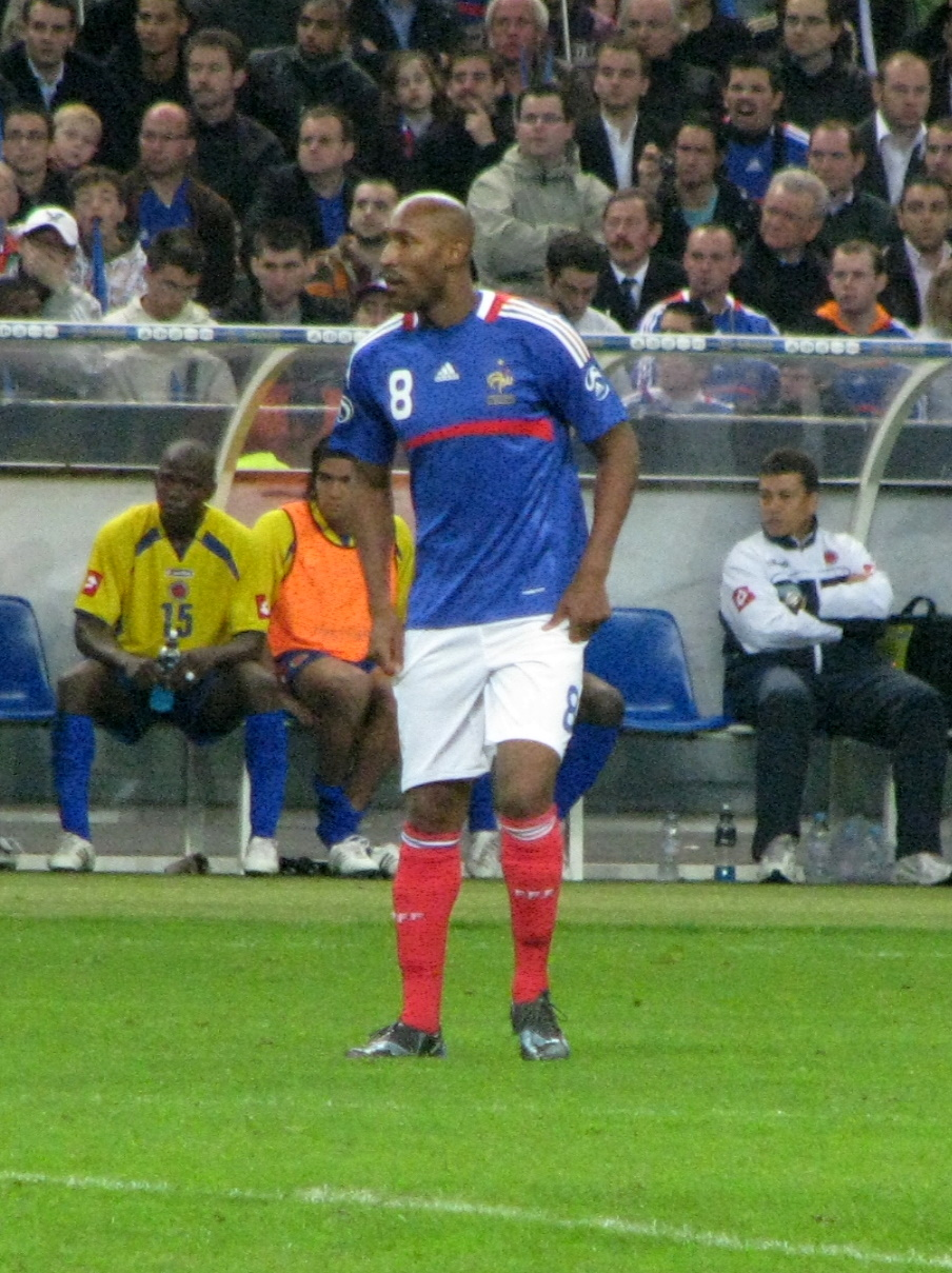 Nicolas Anelka during France-Colombia friendly match.